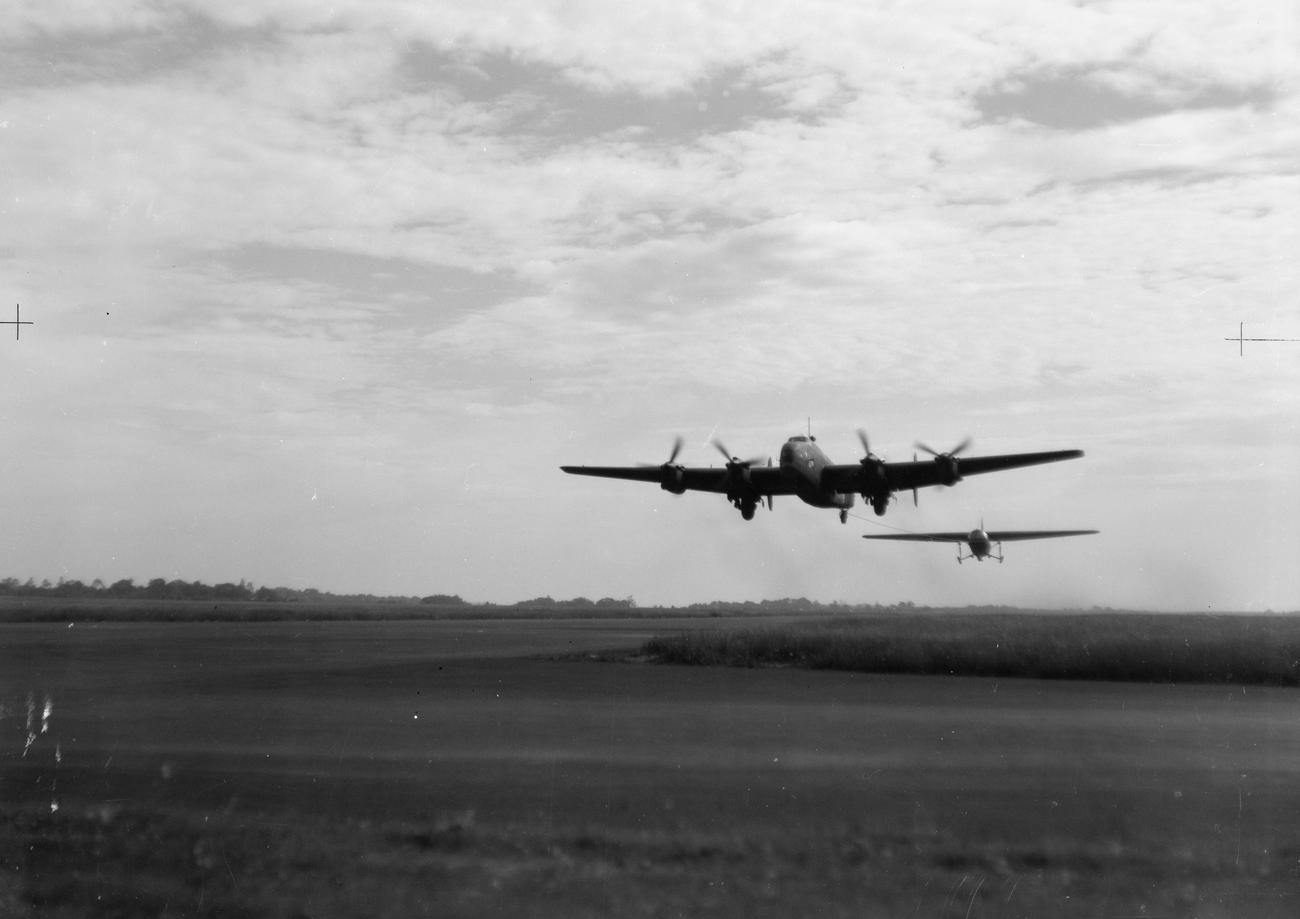 A Handley Page Halifax A.V Series 1 (Special) glider tug (EB139, "NN"), of No. 295 Squadron RAF based at Holmesley South, getting airborne from Portreath, Cornwall (UK), towing Airspeed Horsa glider LG723 to Tunisia, during "Operation Beggar": the transit of Halifax/Horsa glider combinations from the United Kingdom to North Africa by units of No. 38 Wing RAF, in preparation for the invasion of Sicily (Operation Husky).